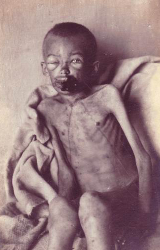 1920s Famine scene. Presumably shot in the province of Saratov in July/August 1922